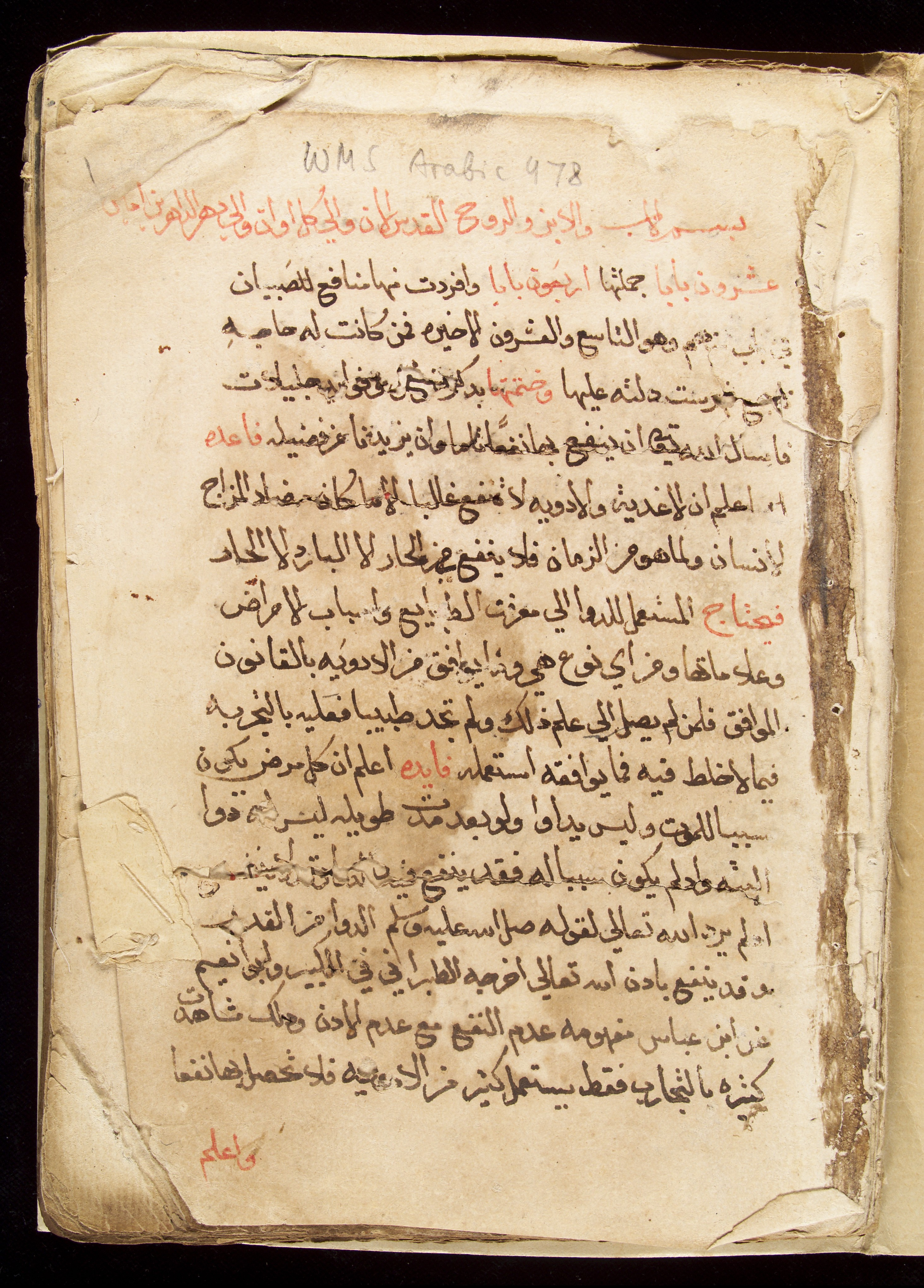 Page from an Arabic Text Asian Collection Keywords: Arabic